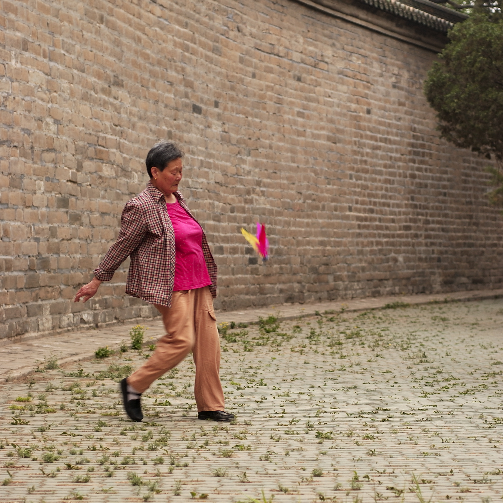 A Chinese woman is playing a traditional Chinese game in a park of Beijing, China.